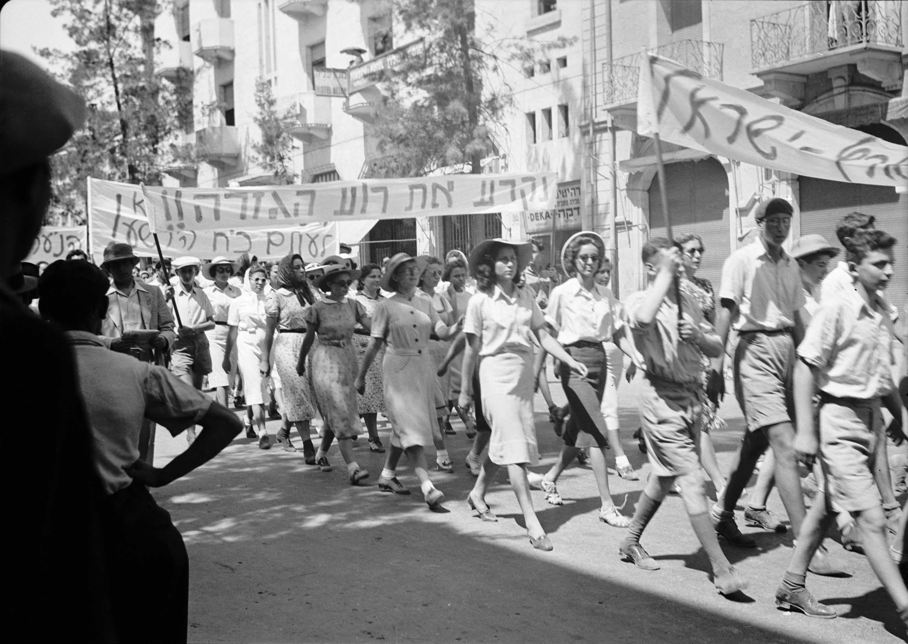 Jewish protest demonstrations against Palestine White Paper, May 18, 1939. Zionist young men & girls parading on King George Ave. [Jerusalem]